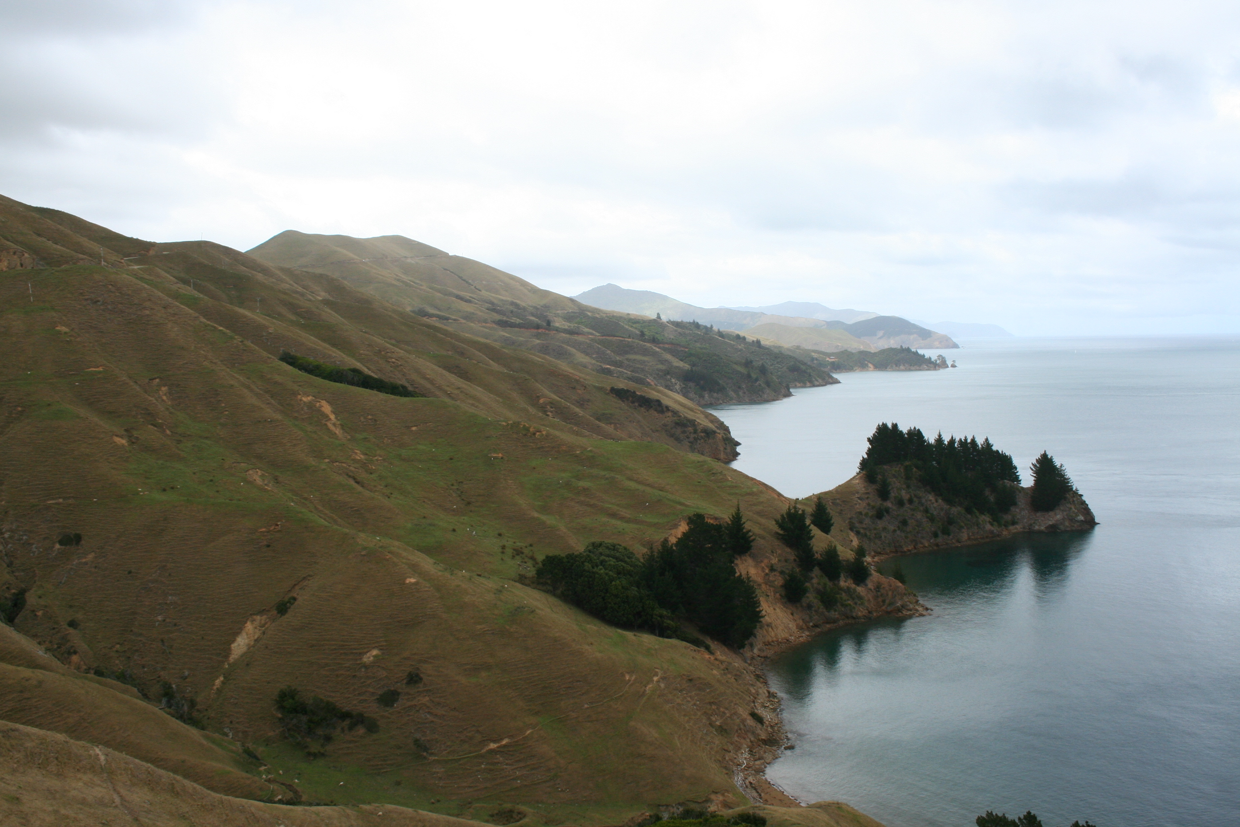 Coast of the Malborogh Sounds, South Island, New Zealand